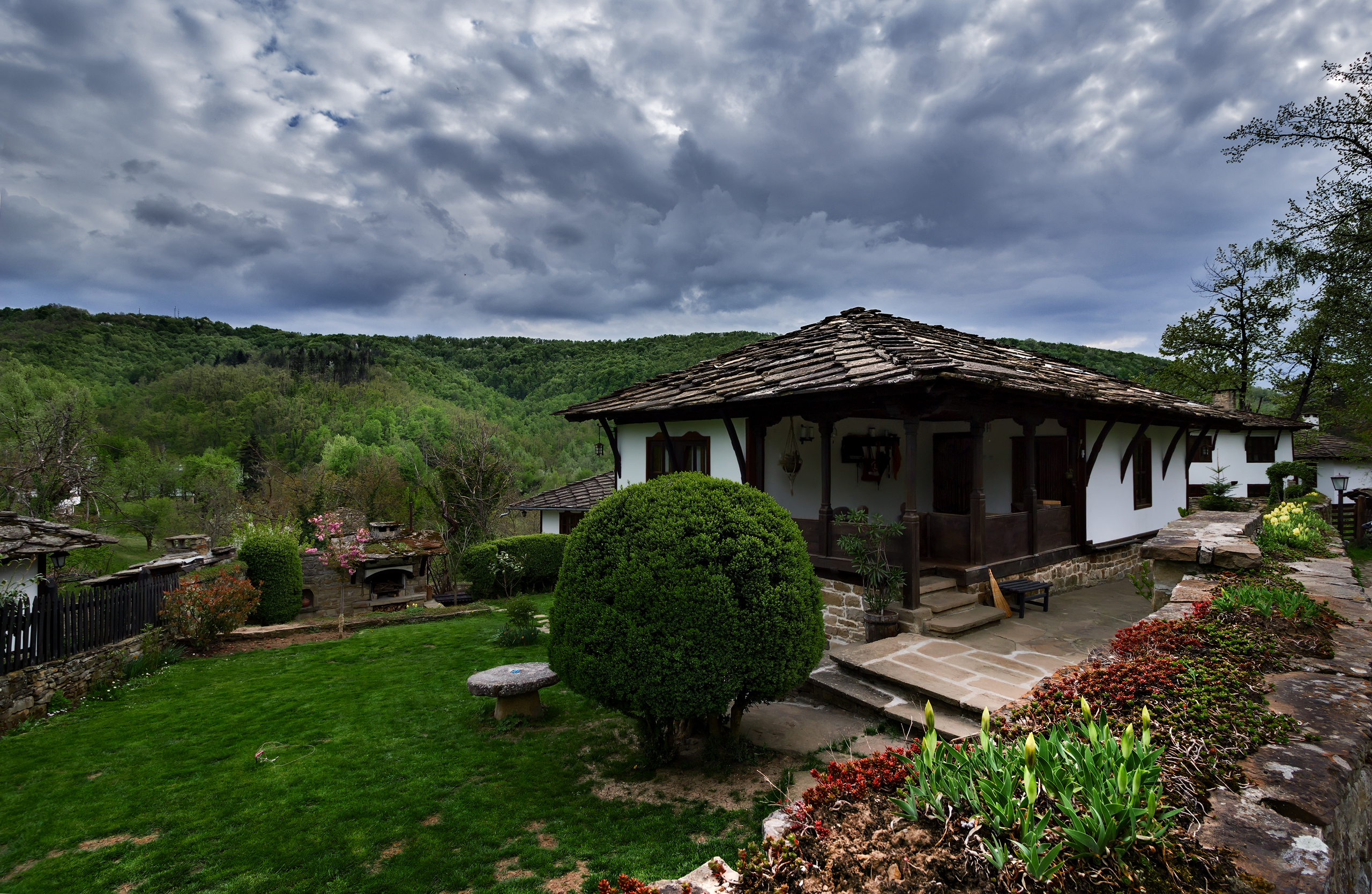 Bozhentsi village